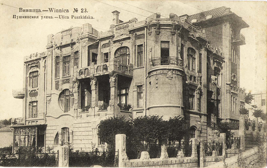 Vinnytsya, Pushkin Street № 38. Built by architect V.P. Listovichiy. The house was built in the art nouveau stily. Captain Chetkov ordered the project of the house to the Kyiv architect V. Listovnichiy, the teacher of Kyiv Institute of Civil Engineers. In 20 cen. maternity hospital and children’s hospital was in this house and now the government of town-planning and architecture of Vinnytsa borough council is located here.